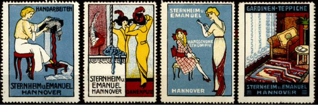 Poster stamp ...